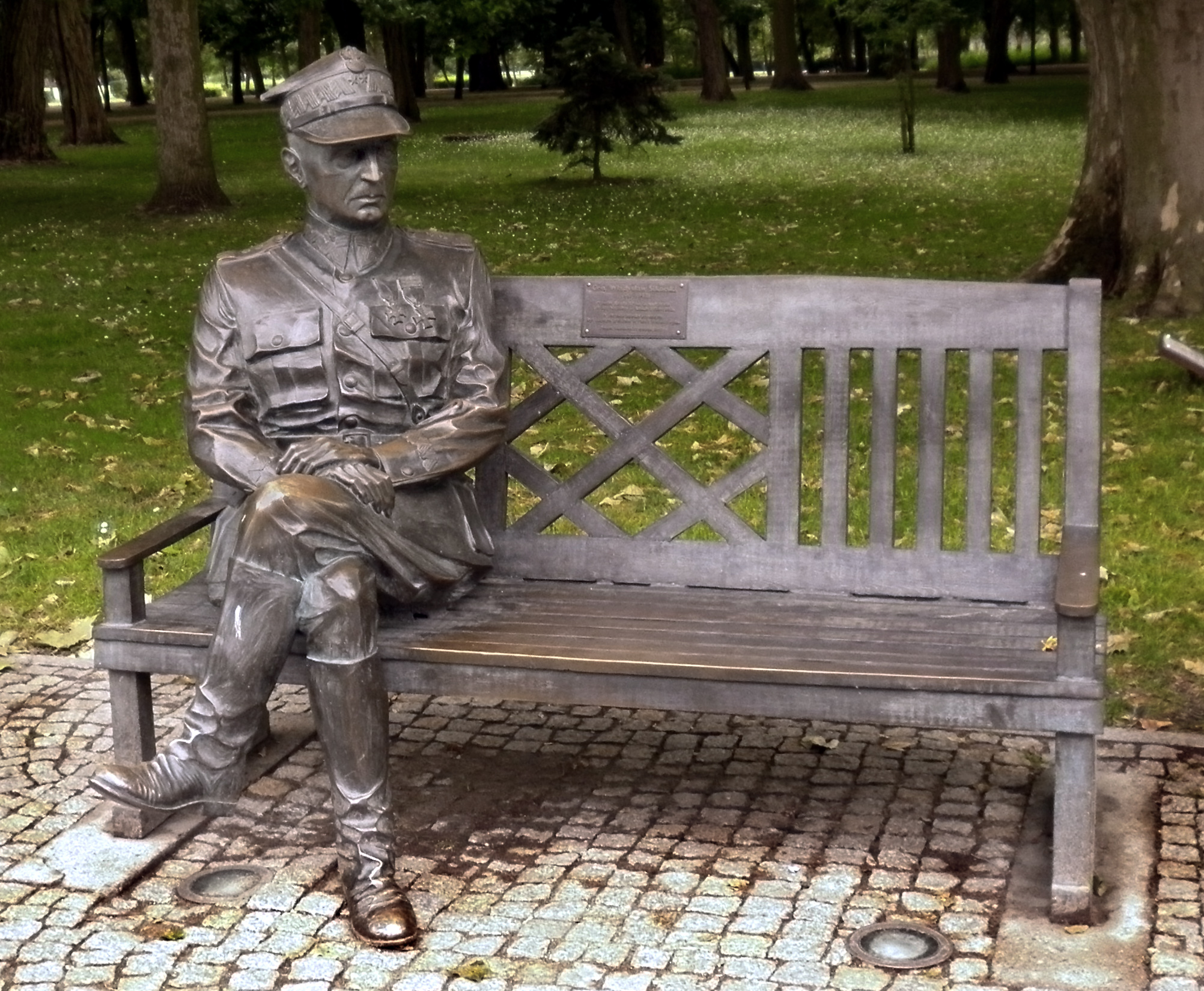 Monument of General Władysław Sikorski in Inowrocław - cropped to close-up